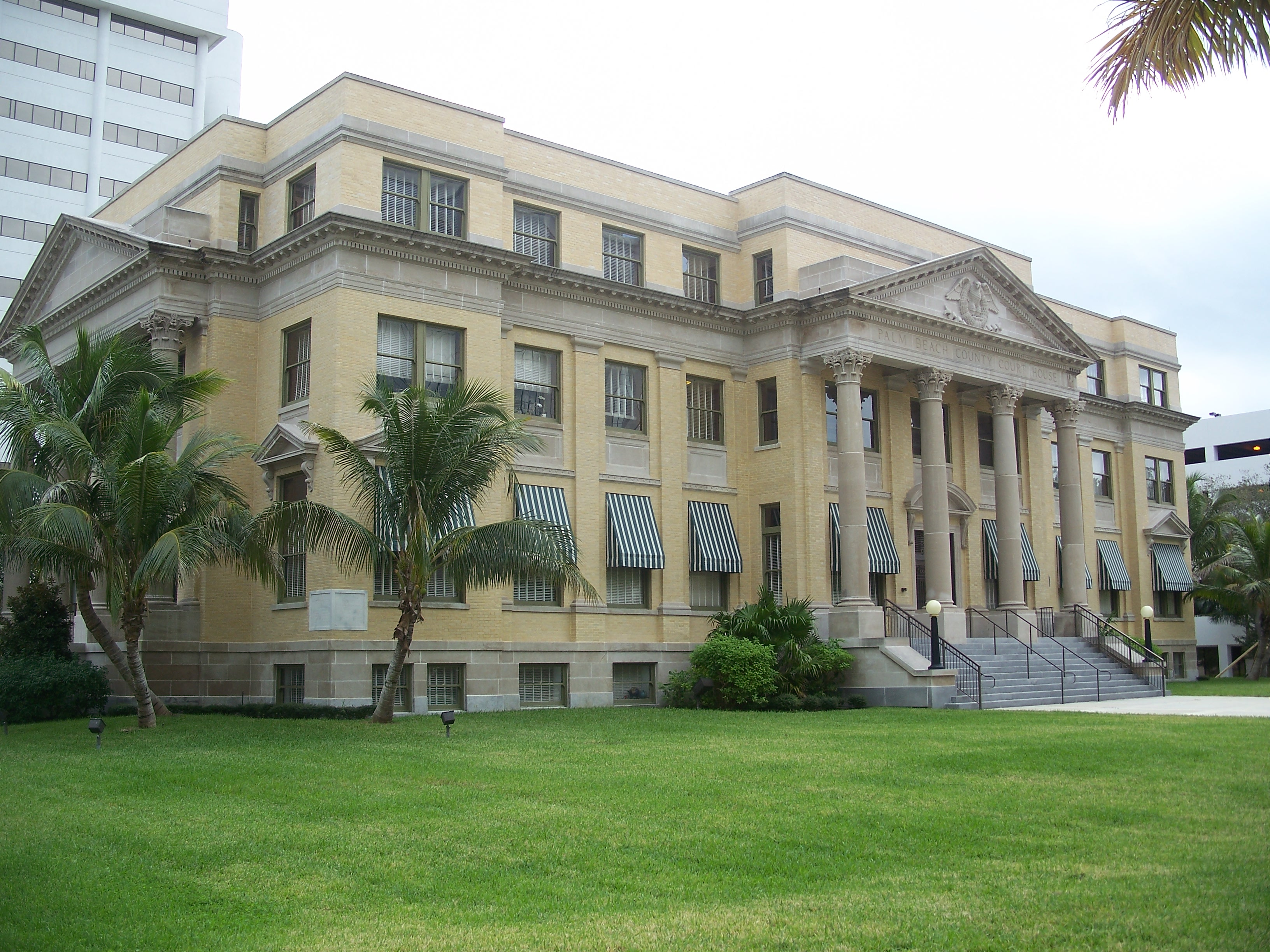 West Palm Beach, Florida: Old county courthouse, built in 1916